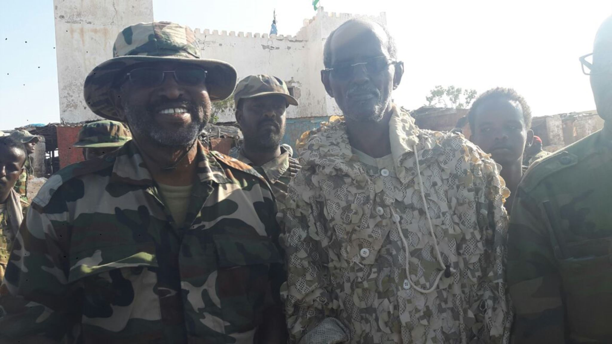 Puntland minister Shire Haji Farah and Yusuf Mohamed Dhedo, Bari region governor, during the Qandala campaign in December 2016.